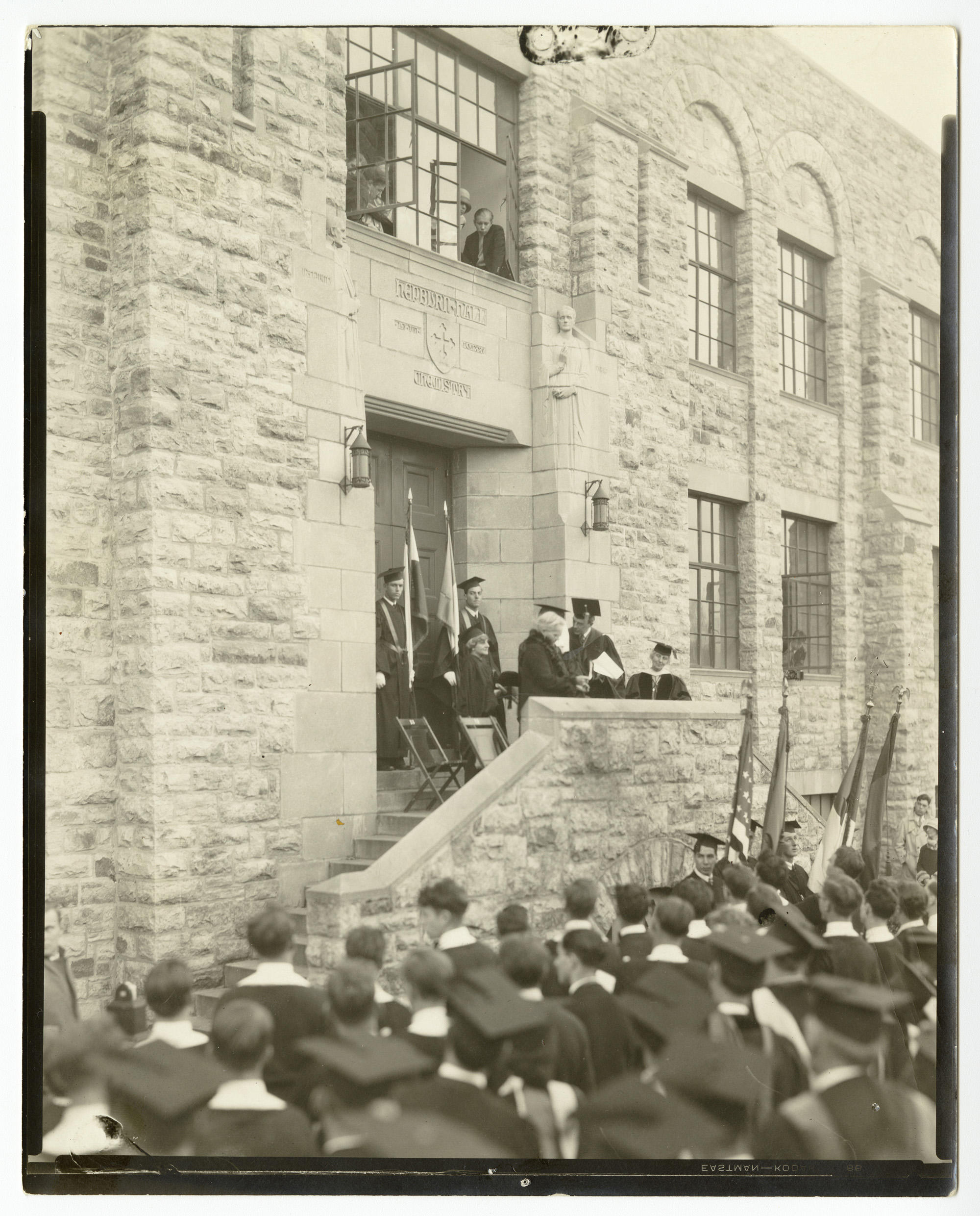 One of the most auspicious days in St. Lawrence history took place on Oct. 26, 1929 when Nobel Prize-winning chemist Madame Marie Curie came to campus for the dedication of Hepburn Hall of Chemistry.